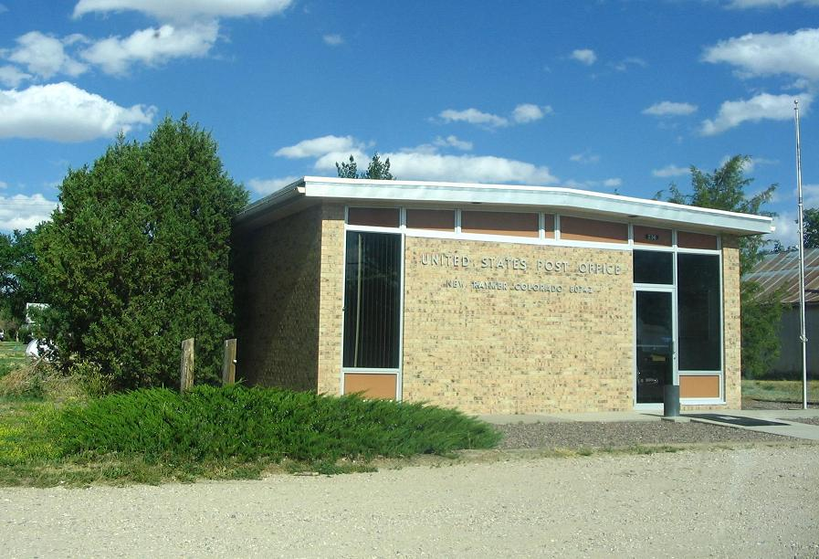 . Post office in New Raymer, Colorado, picture taken 25 June 2006.